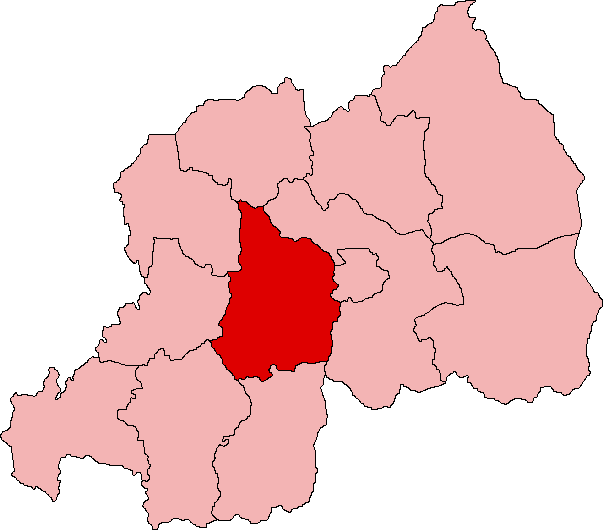 Gitarama Province Adapted from File:Rwanda Butare.png which was made by User:Acntx.